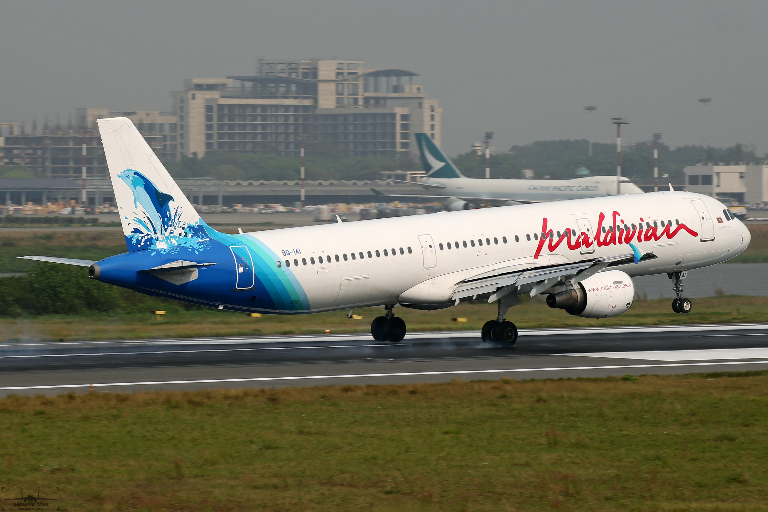 VGHS 2018: While she has been a rather regular visitor at DAC over the years, I wasn't able to spot her untill now.